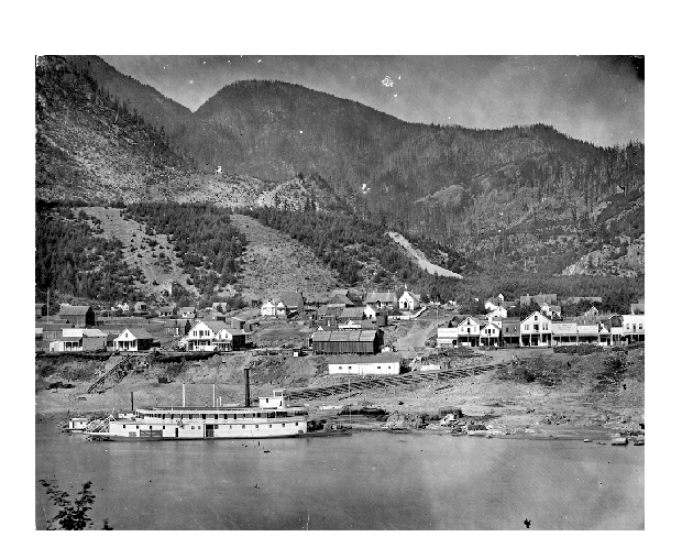 Photo taken 1882 Photograper Maynard BC Archives #A-00316 [1]